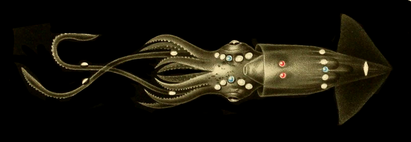 Lycoteuthis "diadema"